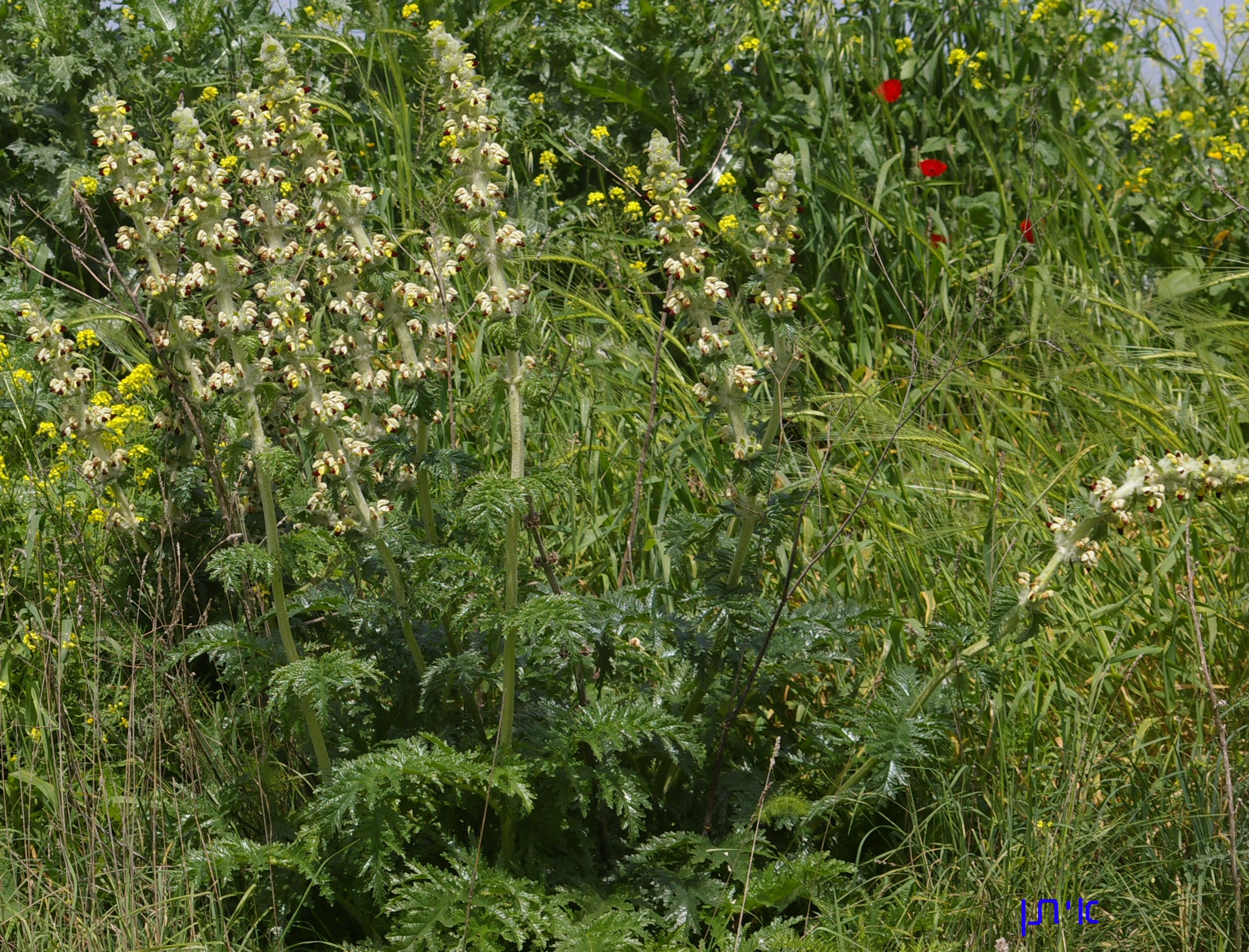 Eremostachys laciniata צמר מפוצל, יקנעם, נחל השניים